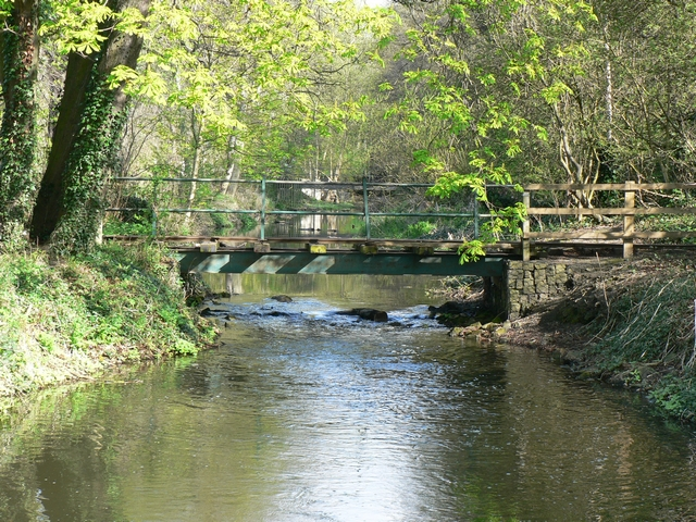 Railway bridge over Kirkstall Goit, Kirkstall. The Abbey Light Railway is a 2 foot gauge railway operating a short track from Bridge Road into the grounds of Kirkstall Abbey. It uses small petrol and diesel locomotives. Seen from the footbridge over Kirkstall Goit, which supplied water to drive machinery in Abbey Mills.